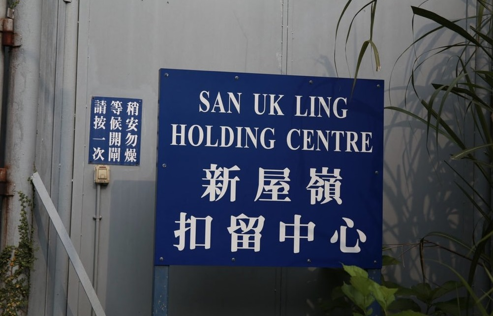 The entrance of the San Uk Ling Holding Centre, Hong Kong, the so-called "Cell of Horror"[1][2][3] in the media and the public attention